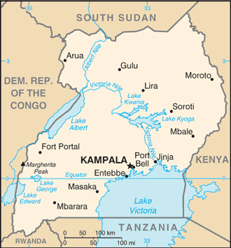 Uganda map from CIA World Factbook, converted from original GIF format (July 2011 version showing South Sudan)